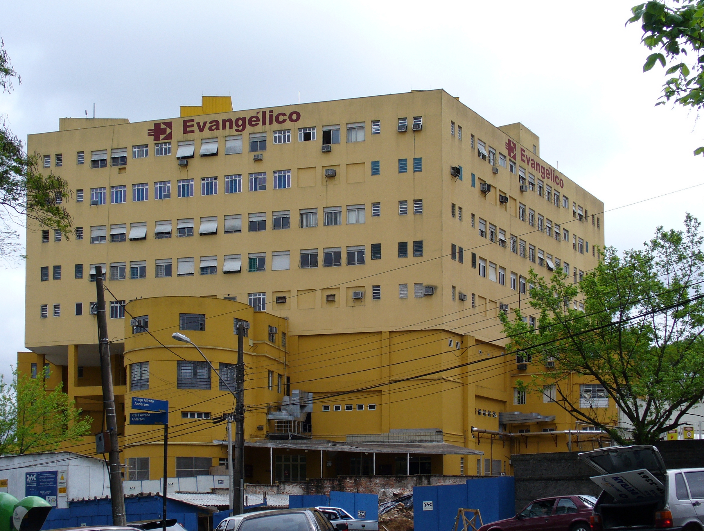 The Evangelical Hospital from Curitiba, Parana, Brazil